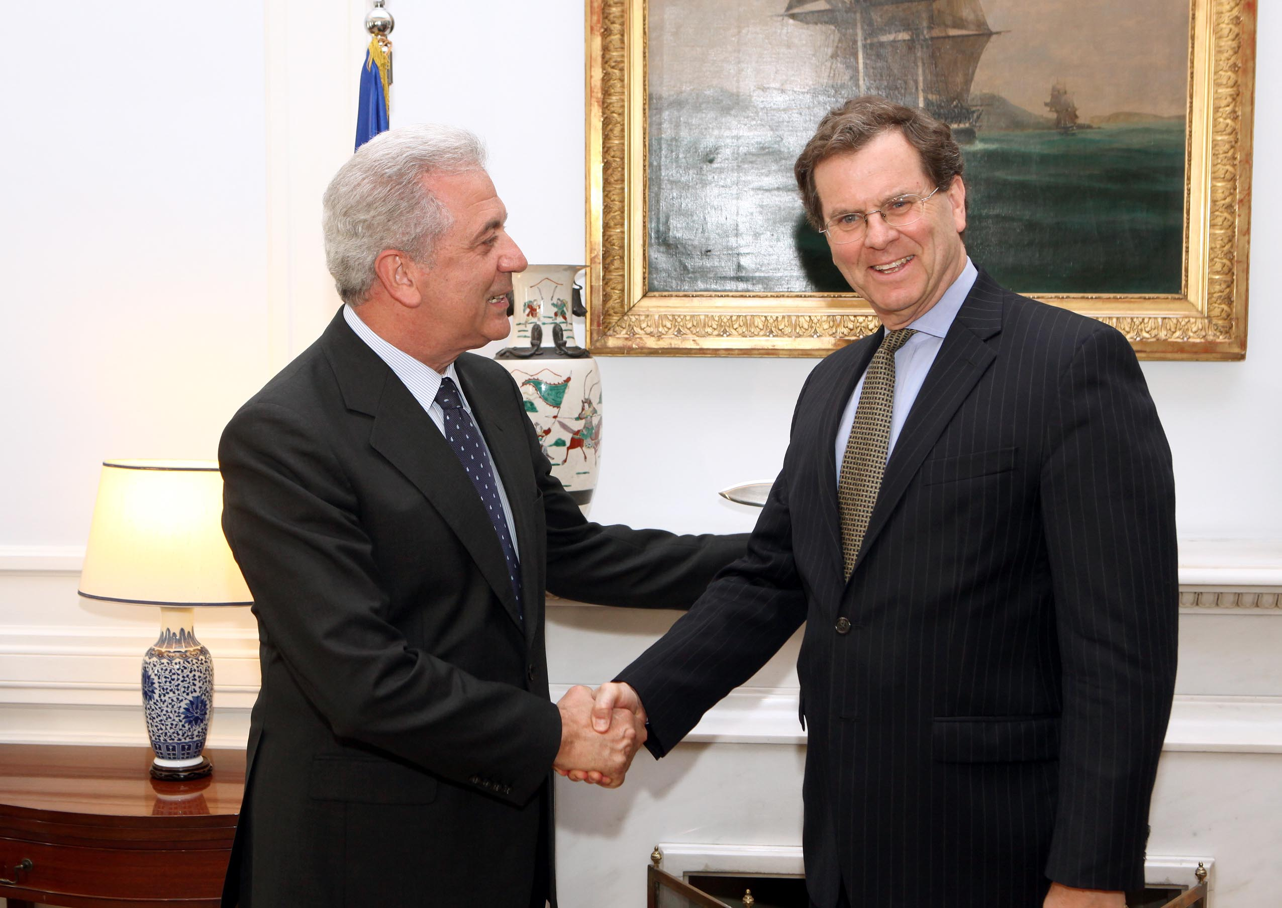 On Friday, July 20, 2012, Foreign Minister Dimitris Avramopoulos met the President of the Organisation of American Jewish Committee, David Harris, at the Ministry of Foreign Affairs.